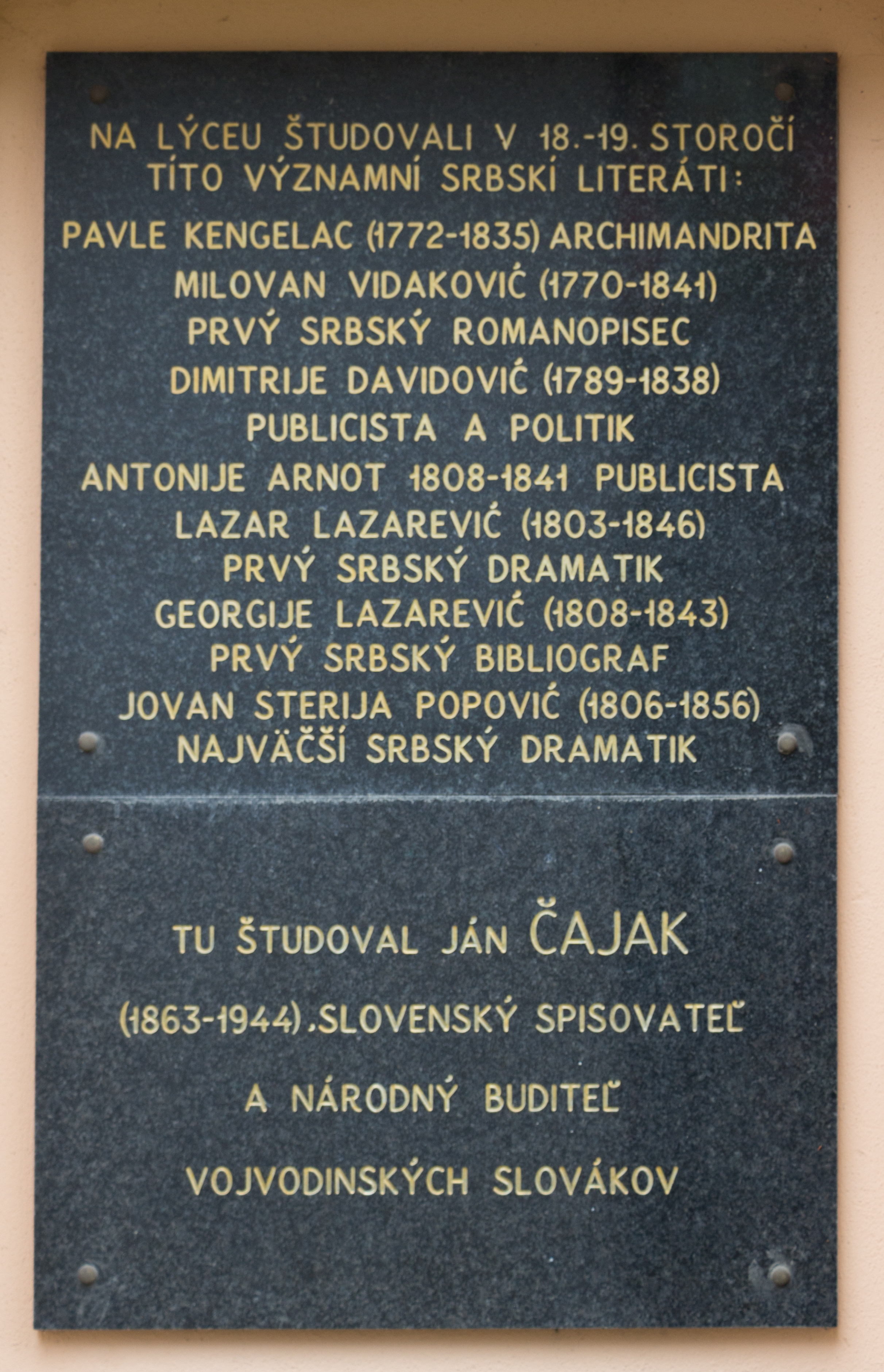 Plaque on the wall of Lyceum in Kežmarok. Slovakia